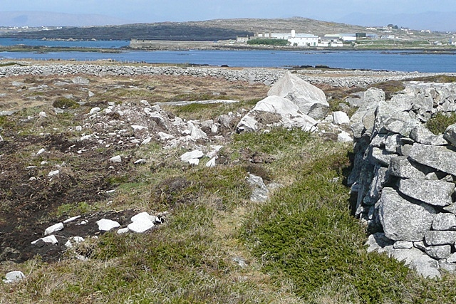 Caorán na gCeac Theas (Keeraunnagark South) This shows most of the square from the south. We are looking across the tidal bay to the west of the village towards the quay, with the low Oileán Chaladh Ainse to the left. The white buildings are also in the square.